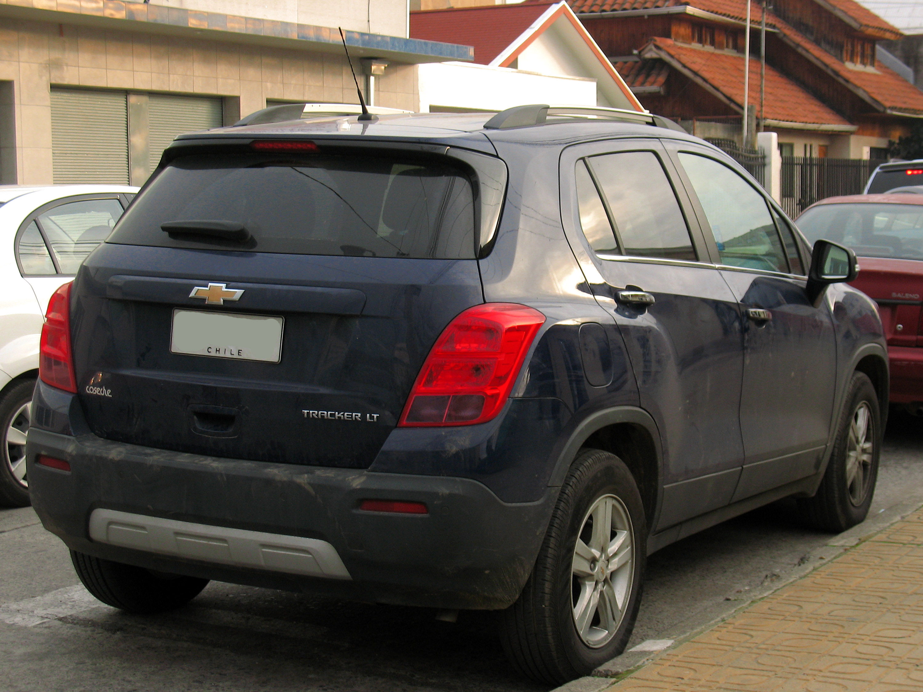 Chevrolet Tracker LT 1.8 2014